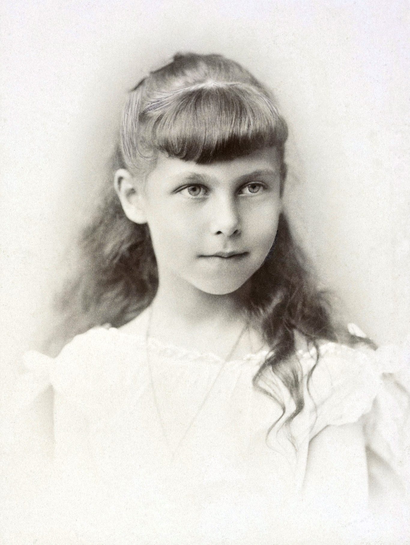 Princess Victoria Melita of Edinburgh and Saxe-Coburg and Gotha in her youth Note: this picture could also depict one of her sisters.